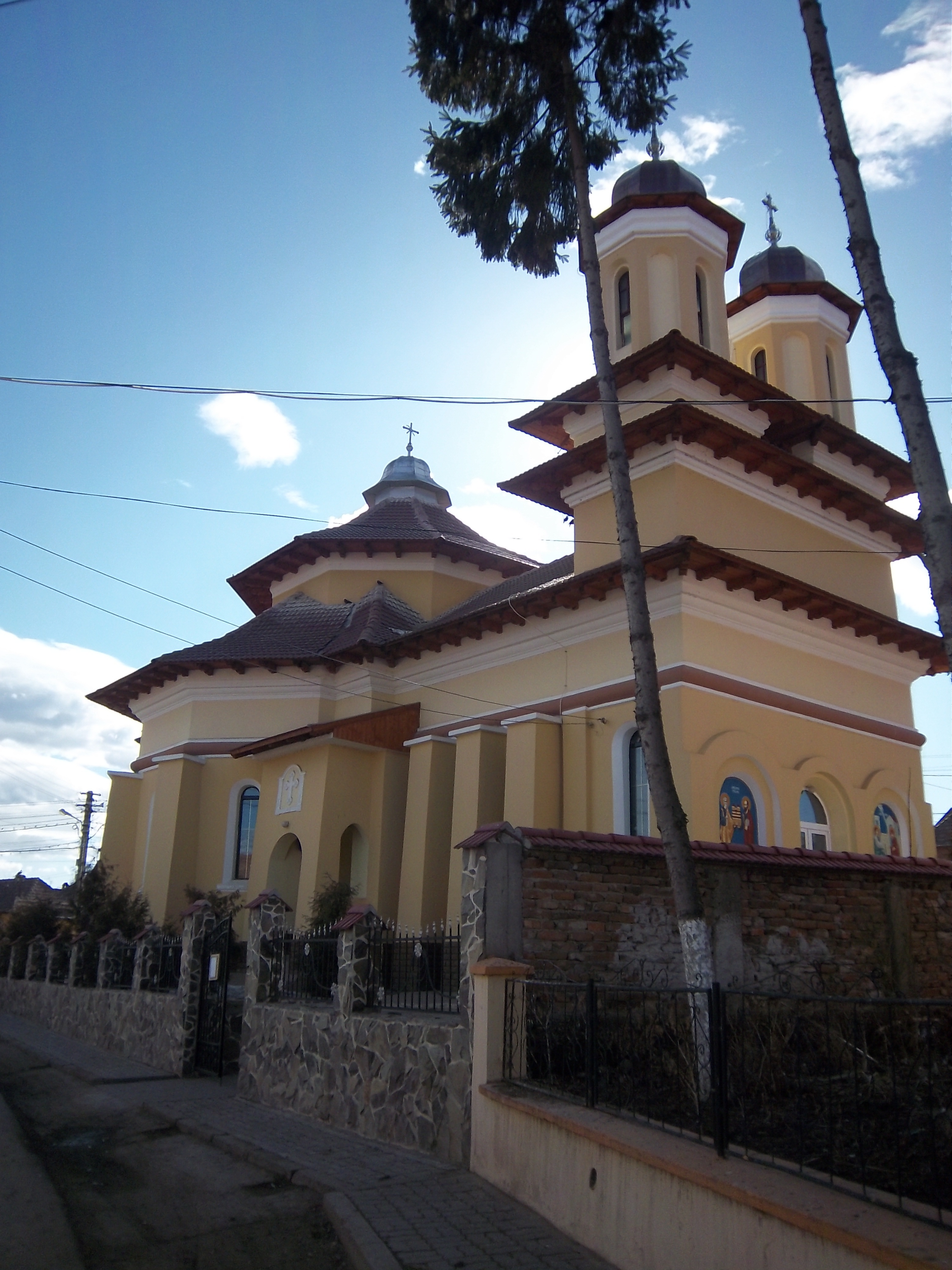 Biserica din Daia Romana